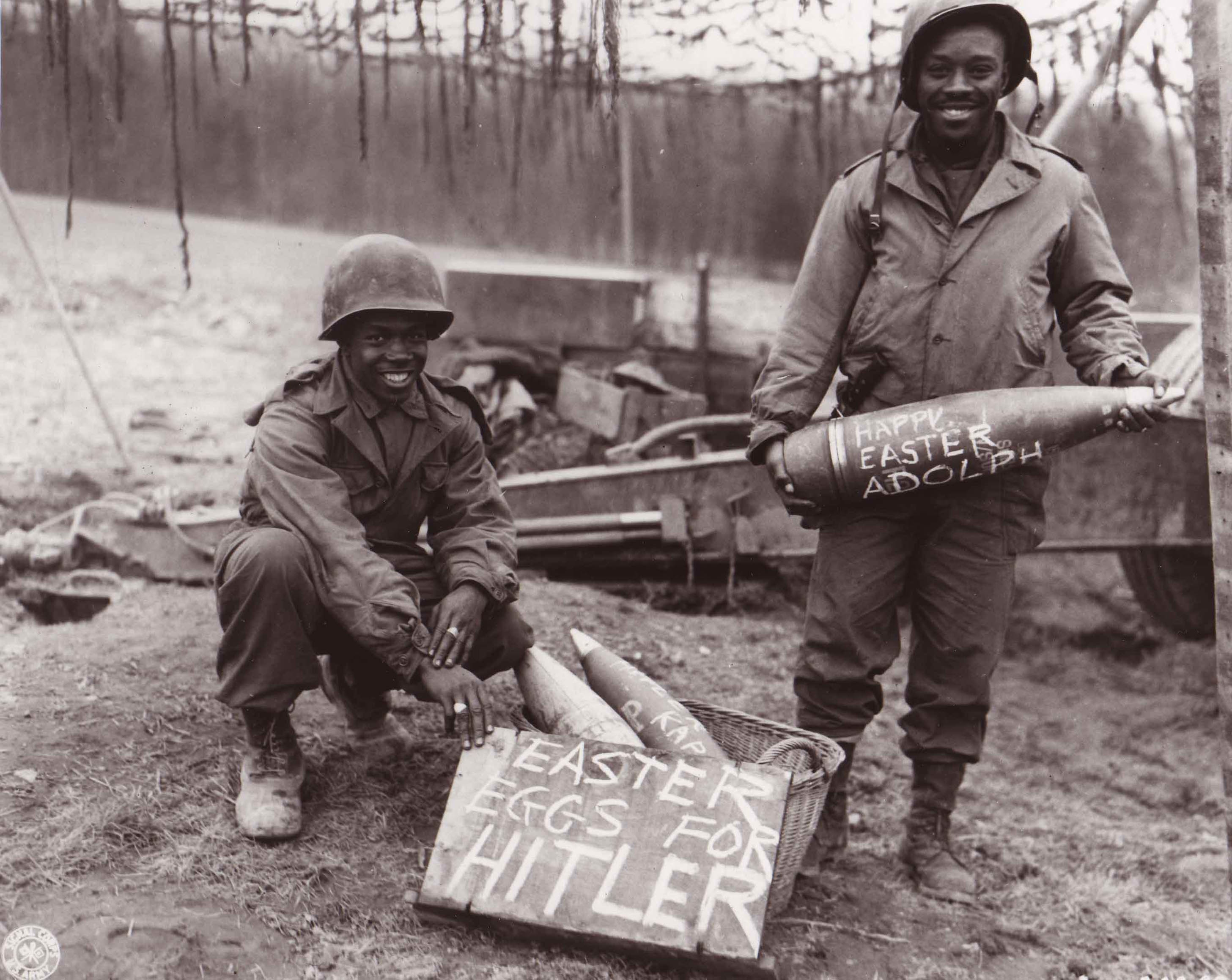 Easter Eggs for Hitler Photo by National Archives March 10, 1945 Two Soldiers proudly show off their personalized "Easter eggs" before firing them. source